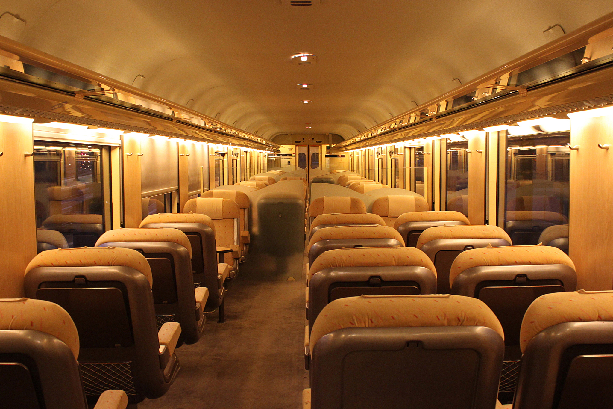 Interior of SNCF 50 87 10-97 507 in the consist of TER200 96204 from Basel SBB to Strasbourg-Ville.